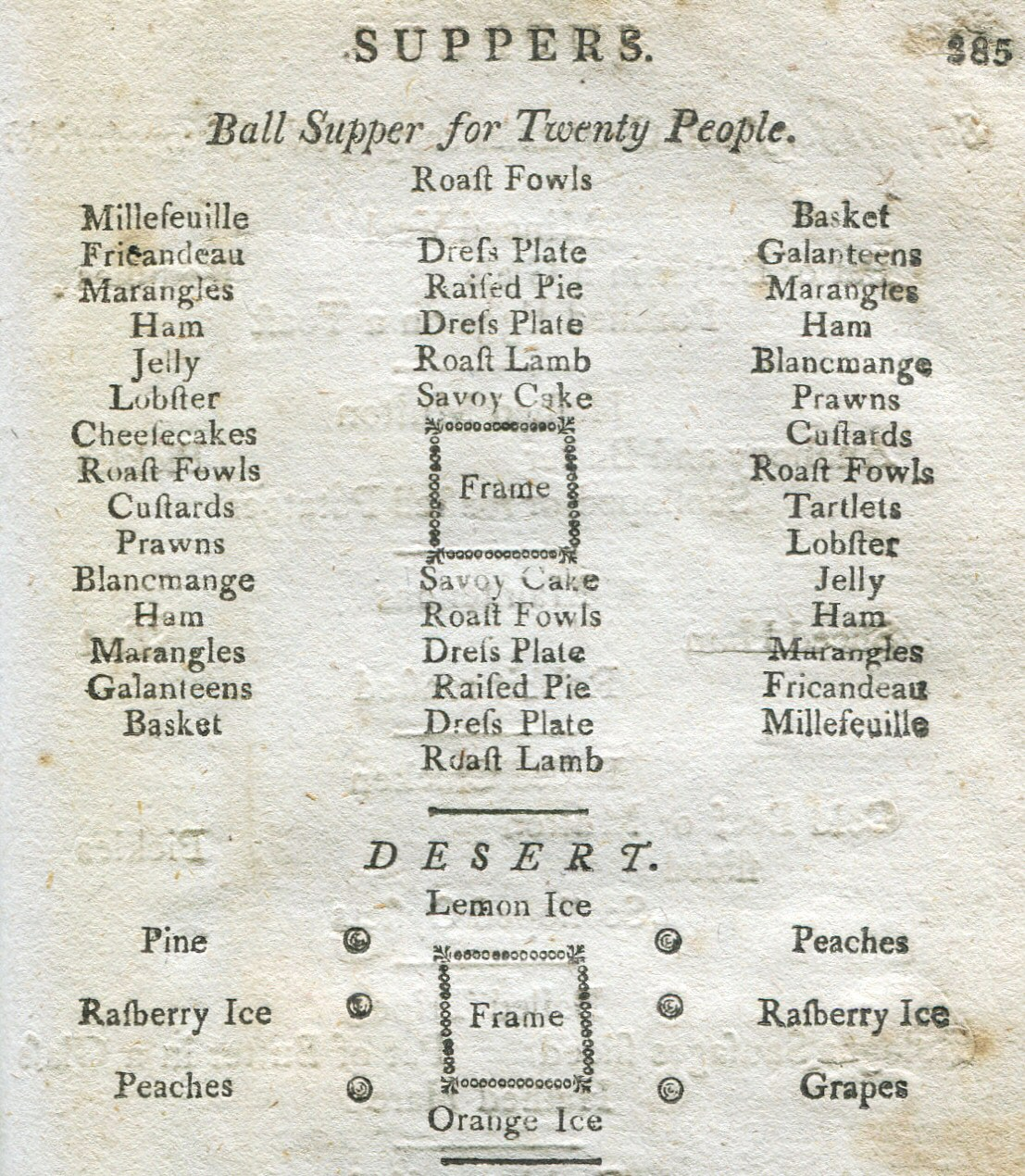 "Ball Supper for Twenty People", table layout recommended by William Augustus Henderson in his Housekeeper's Instructor, 1807